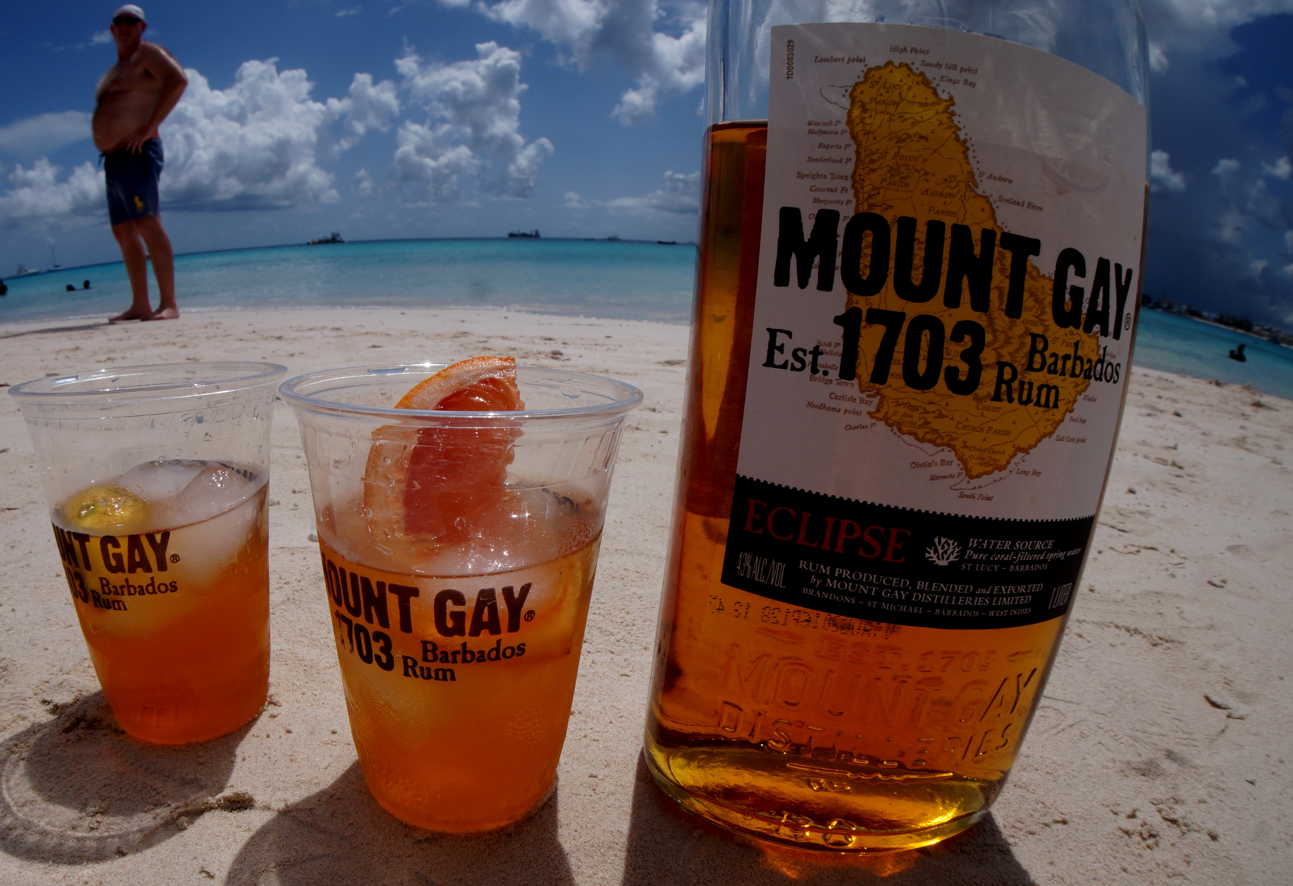 A bottle of Mount Gay Eclipse with two cocktails on a beach in Barbados.